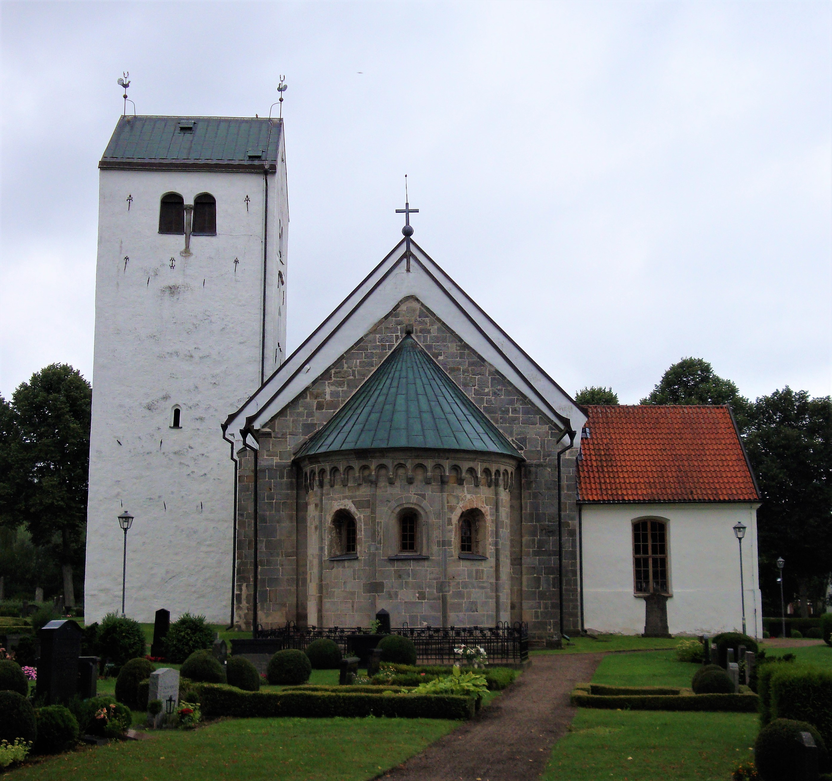 St Mary's church, Vä, Skåne